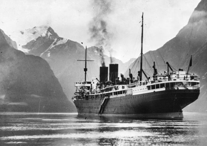 The ship Monowai, in Milford Sound, New Zealand, February 1933. Cruise liners still enter the Sound today, though only rarely. Extended information on origin webpage reads: The ship Monowai, Milford Sound Feb 1933 / Reference number: 1/2-018737-F / 1 b&w original negative(s). Horizontal image. Photographic Archive / Scope and contents: The ship Monowai, Milford Sound, February 1933. Photographer unidentified. / Coverage dates: 1933 / Names: Monowai (Ship. 1930-1960)